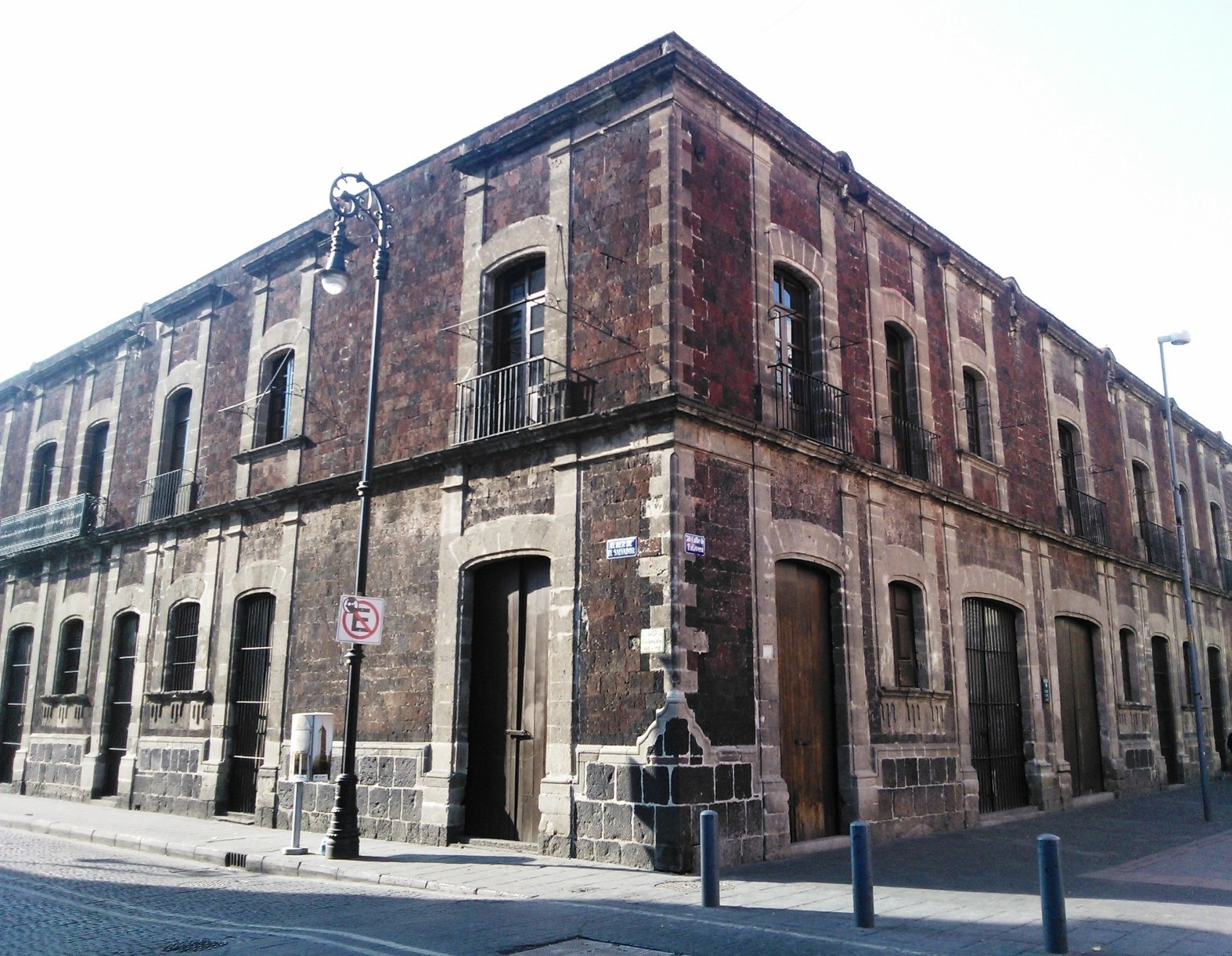 Centro Cultural Casa Talavera